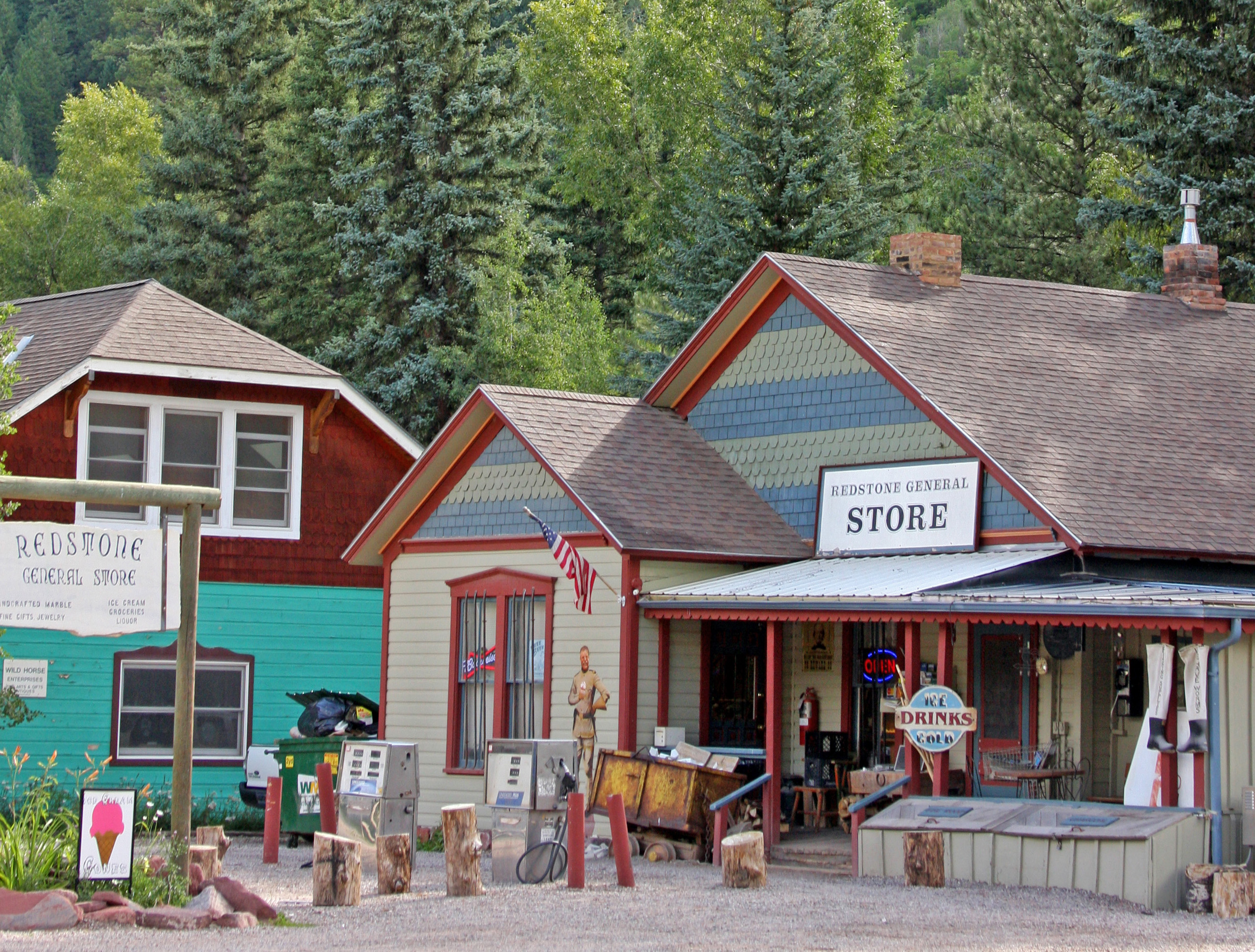 The general store in Redstone colorado, part of the Redstone Historic District